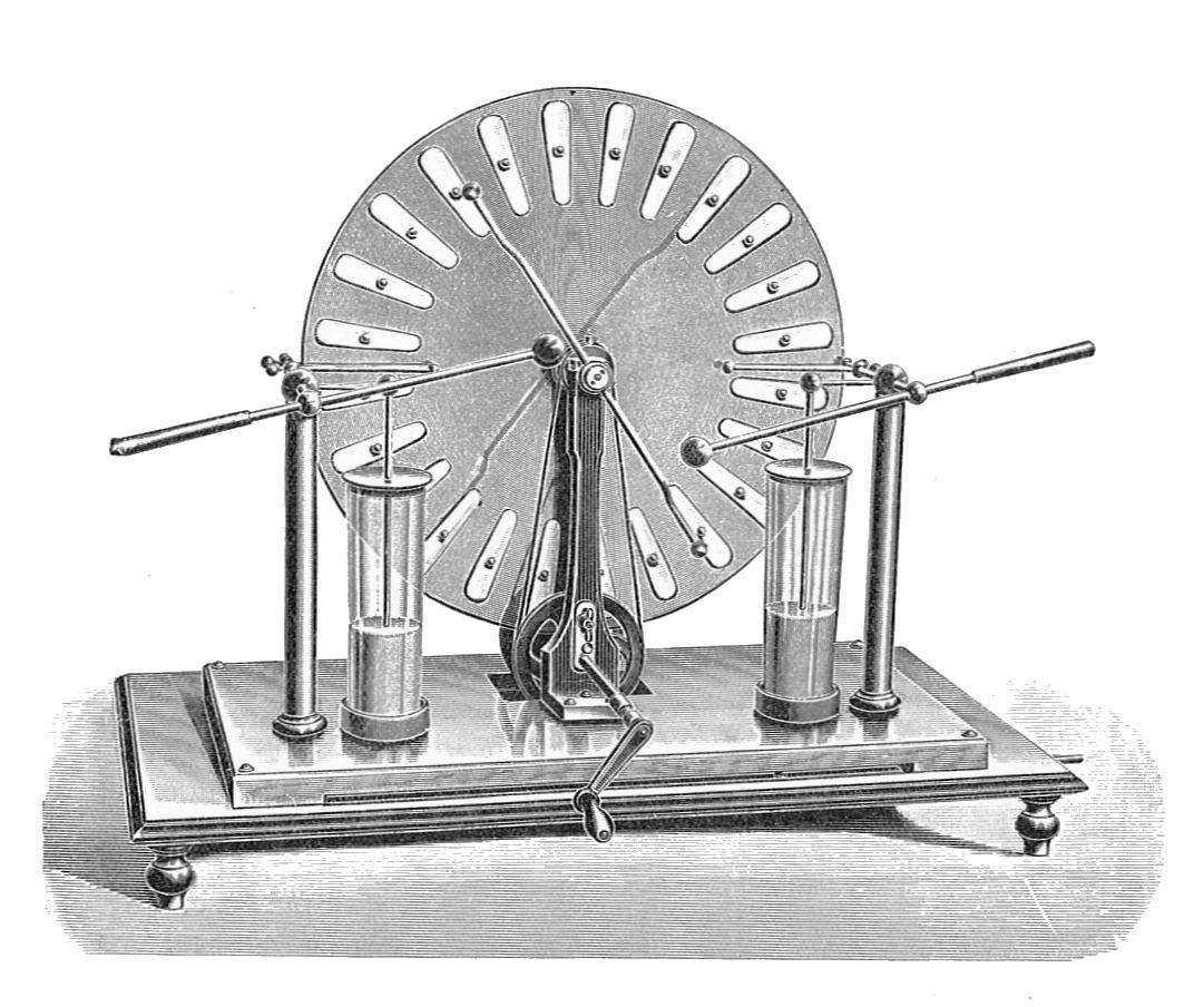 Wimshurst machine (Rankin Kennedy, Electrical Installations, Vol V, 1903).jpg